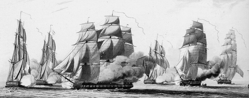 Action of 20 May 1811